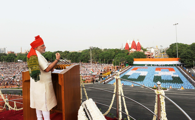 Prime Minister Narendra Modi addressing the nation on Independence Day.